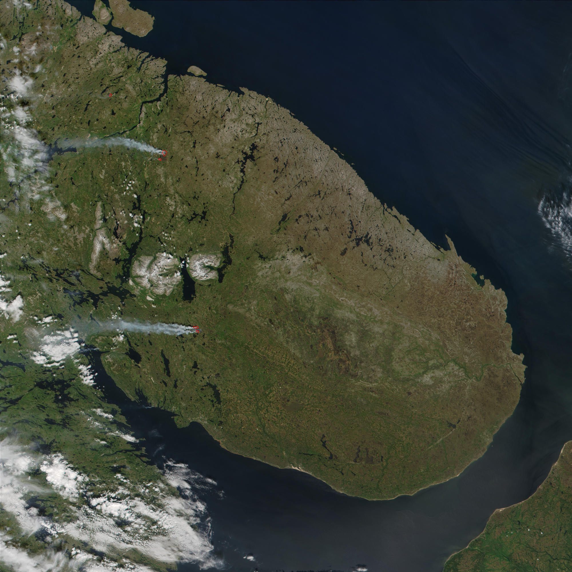 Satellite image of Kola Peninsula in June 2001